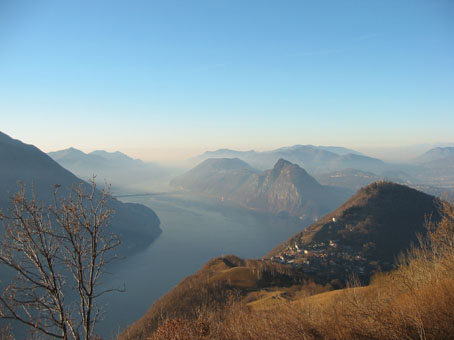 View from 'Roccoline' on the Monte Brè